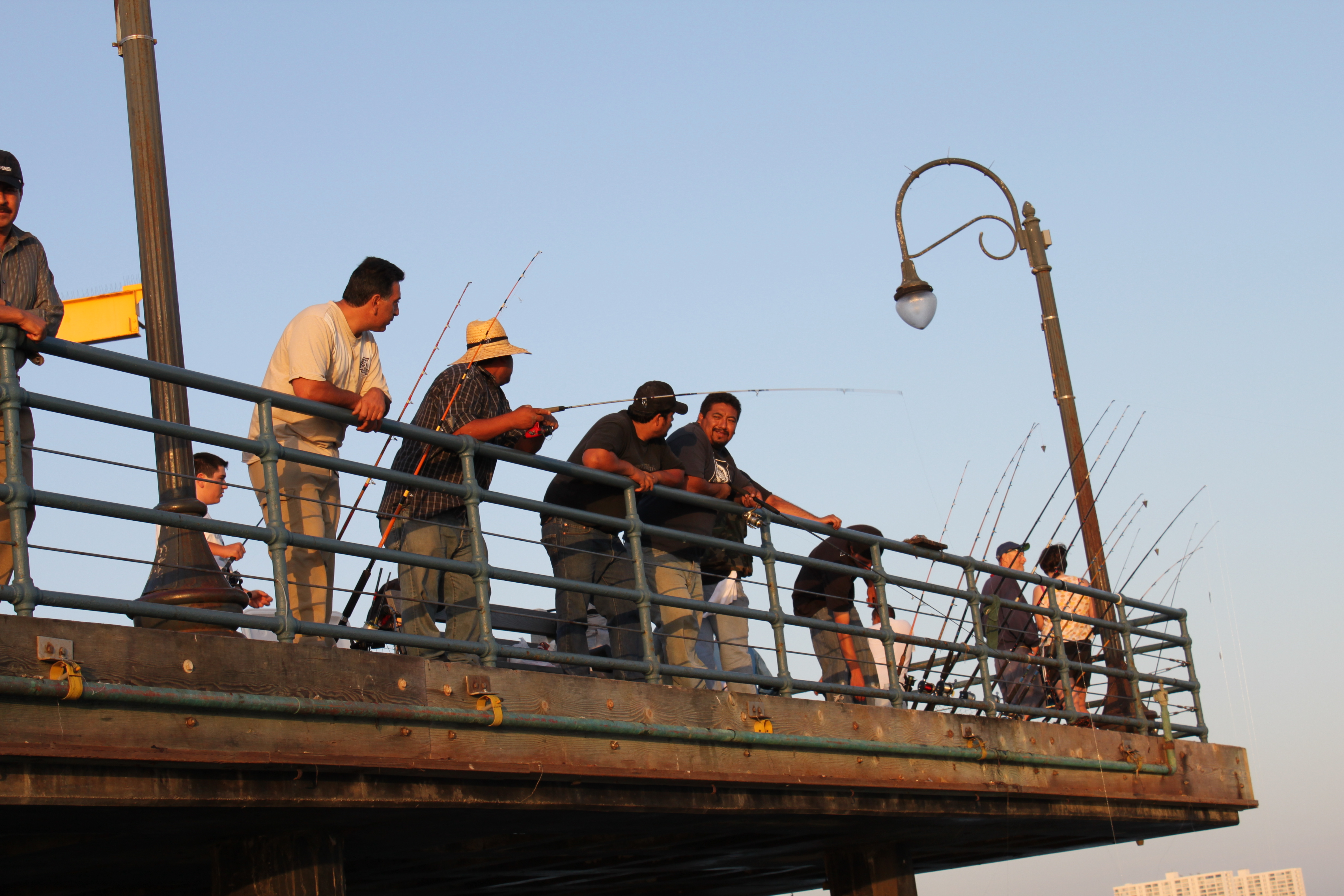 Fishermen (anglers) on the Santa Monica pier at sunset. Santa Monica California.